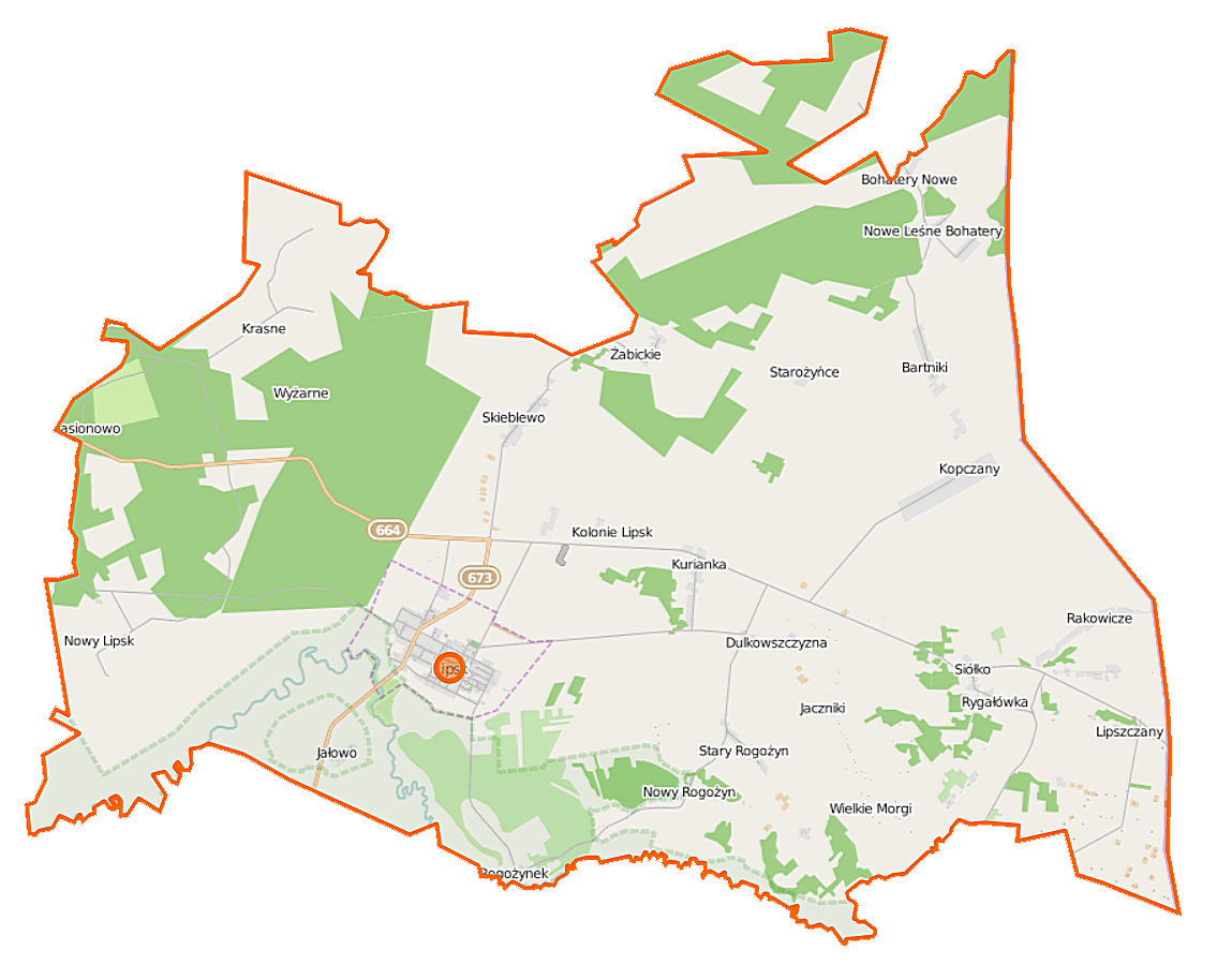 Map of Gmina Lipsk, Poland This map of Lipsk (gmina) was created from OpenStreetMap project data, collected by the community. This map may be incomplete, and may contain errors. Don't rely solely on it for navigation. Border coordinates53.833823.2868←↕→23.601353.6885